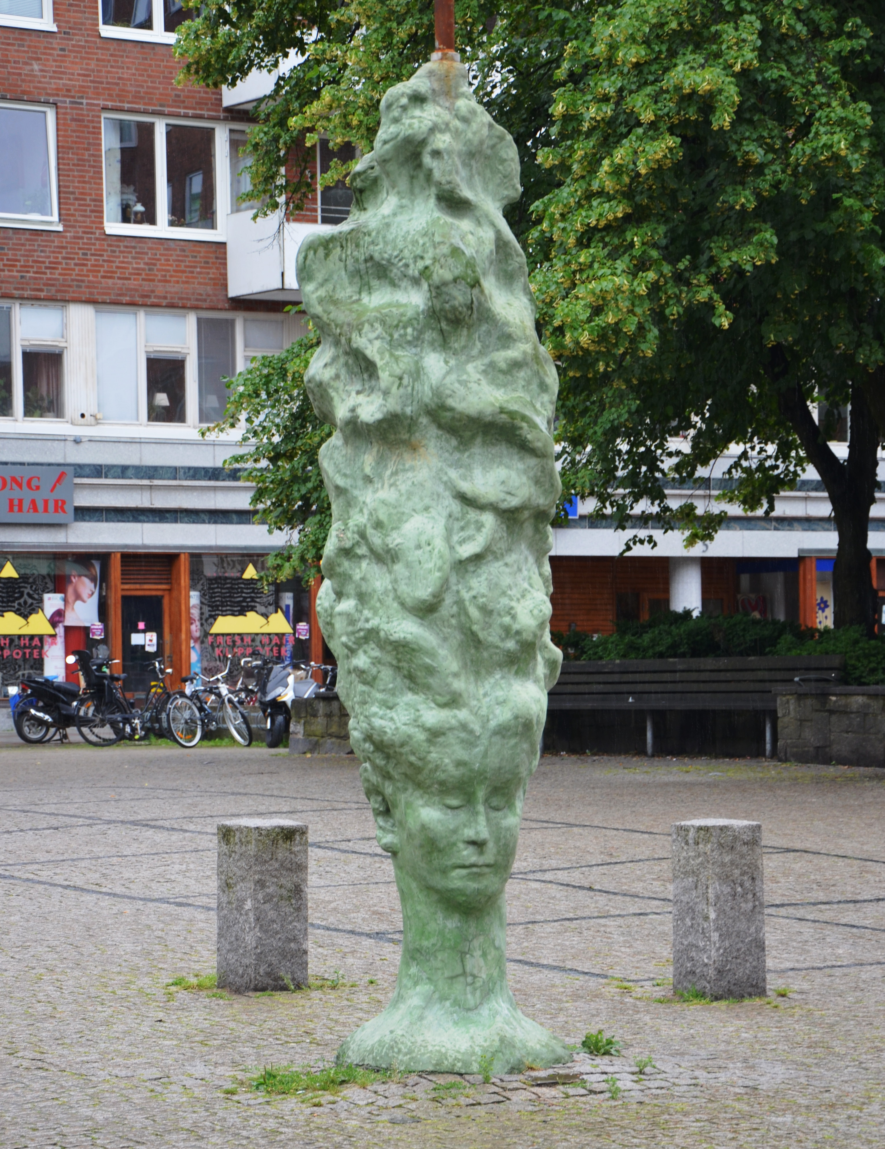 Carin Ellbergs Woodelf, af Chapmans torg, Göteborg